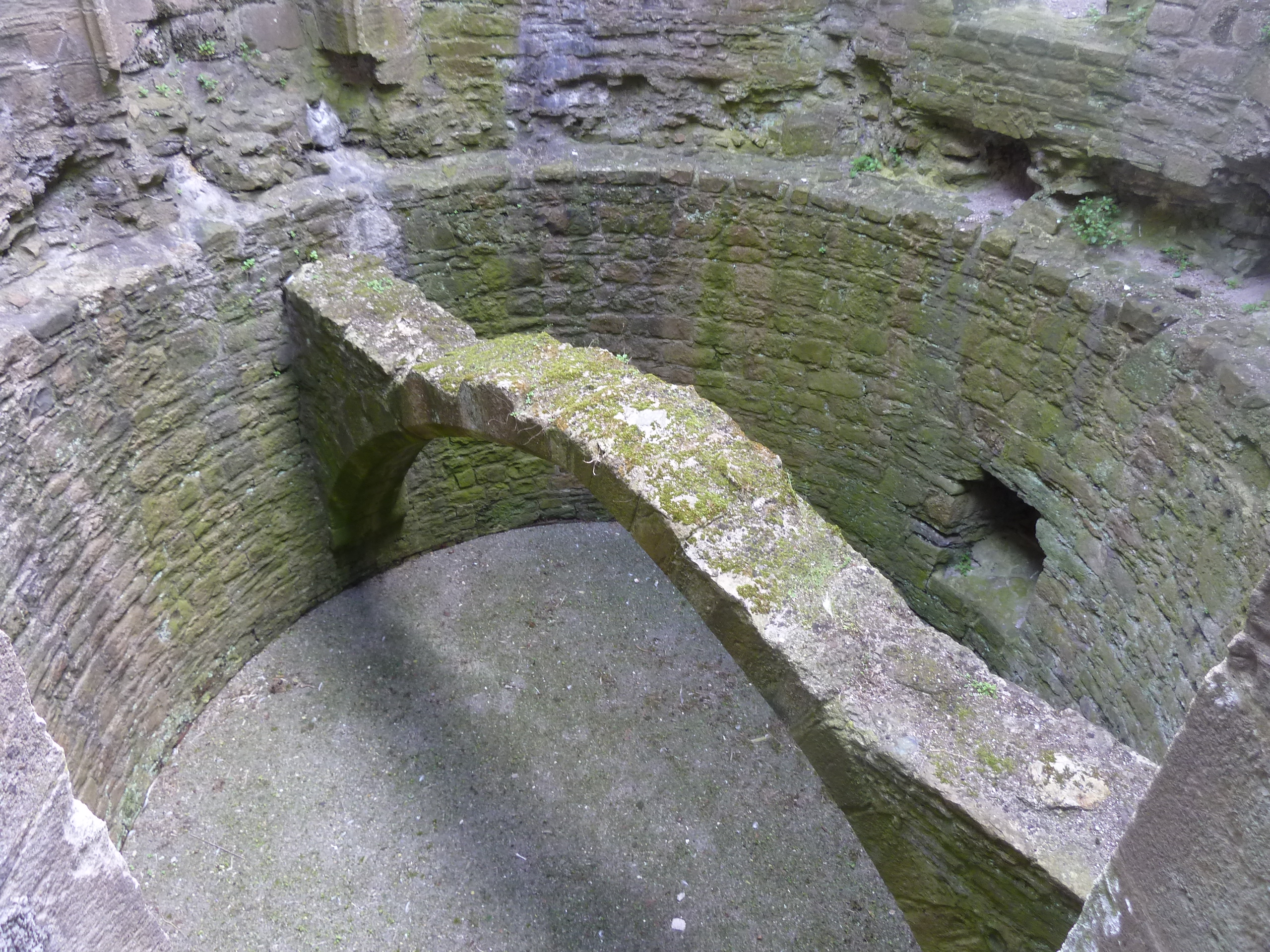 Diaphragm arch across the South East Tower, Beaumaris Castle.